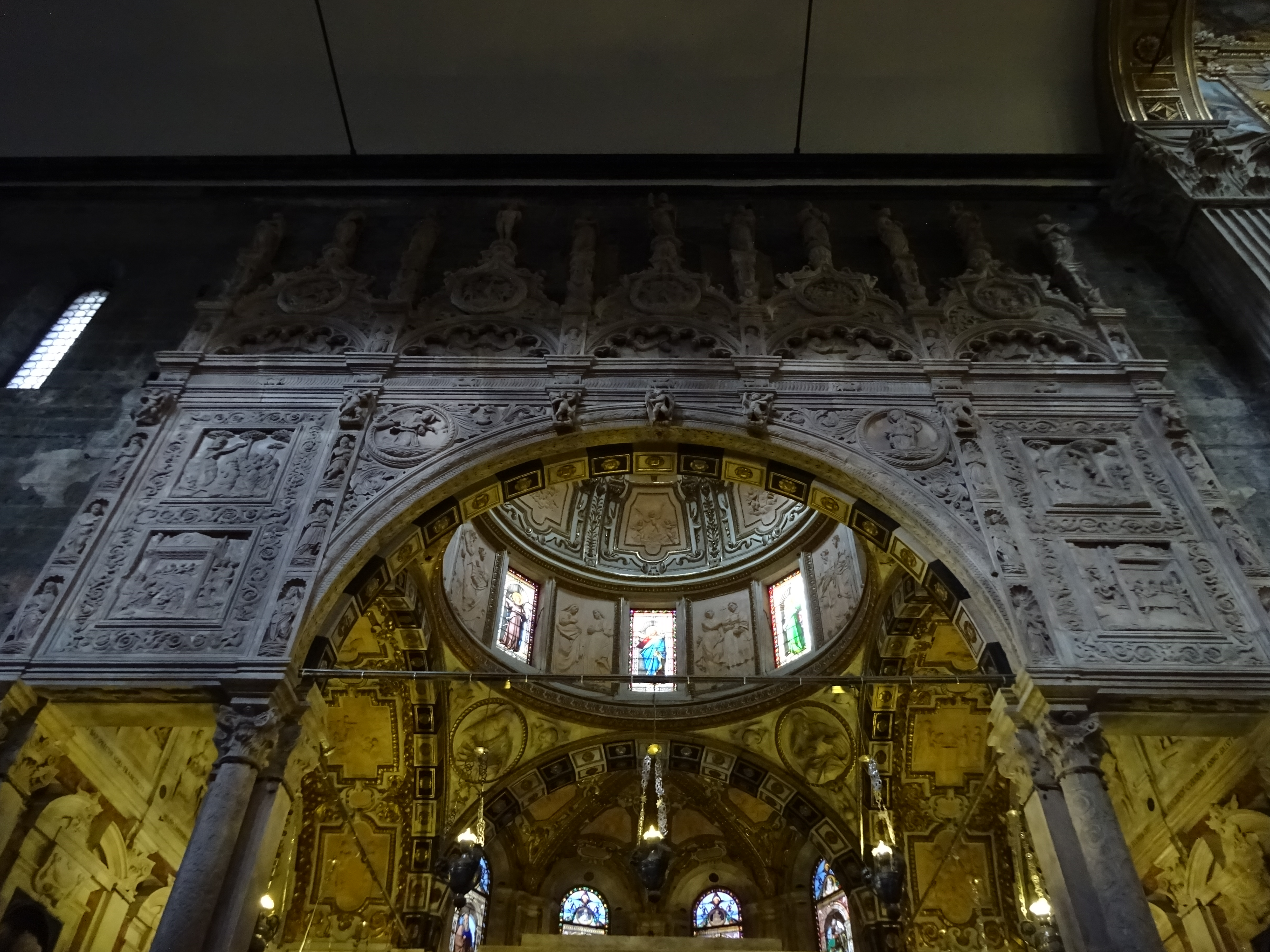 Front of St. John's Chapel in Genoa Cathedral